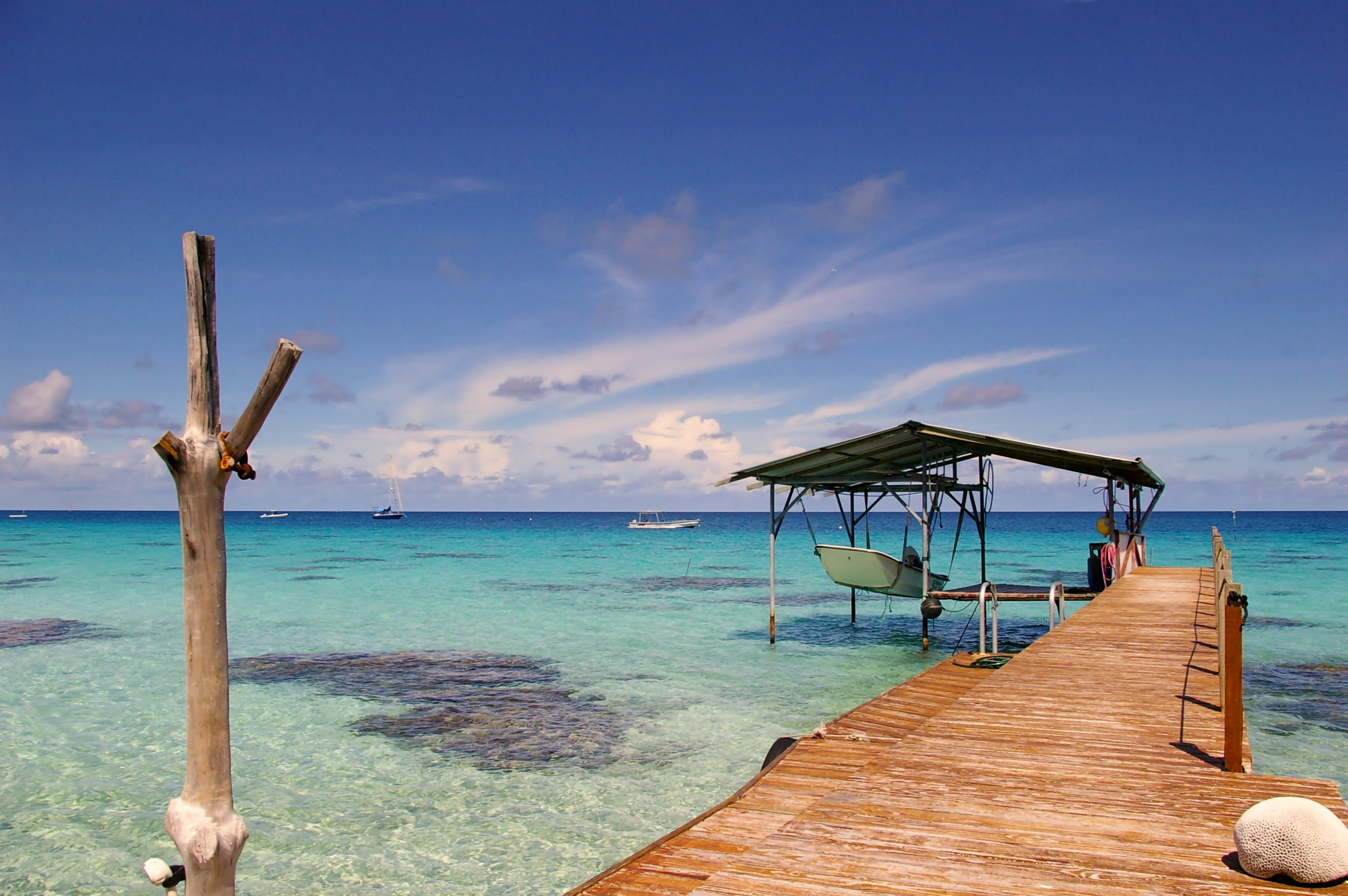 Fakarava inner lagoon taken from a pontoon near the village of Rotoava (The Tuamotus, French Polynesia)